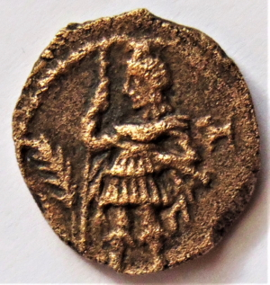 Nabataean bronze coin from Petra showing Aretas IV in military dress standing left, holding a spear in his right hand and resting his left hand on sword in sheath, palm branch to left, Aramaic letter “Heth (H)” to right (15 mm, 2.5 g)